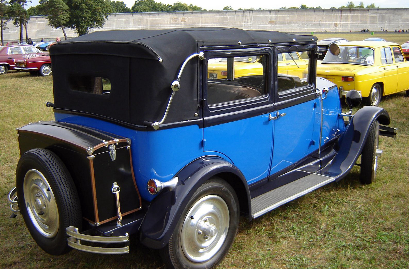 1929 Renault Monastella at the Autodrome de Linas-Montlhéry, 2009